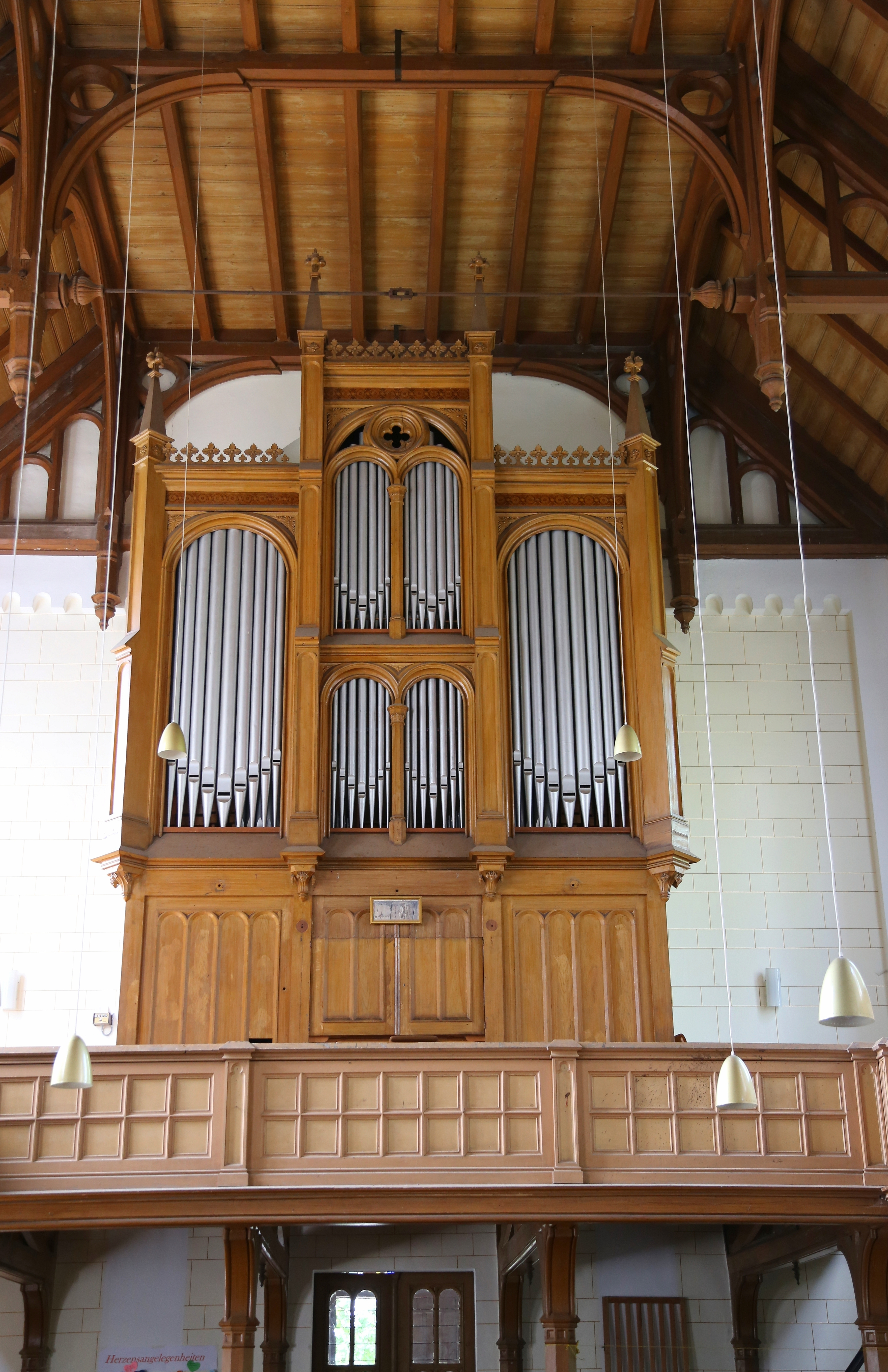 Interior of the Protestant Village Church (Dorfkirche) of Neu Zauche, Landkreis Dahme-Spreewald, Brandenburg, Germany. The church is a listed cultural heritage monument.